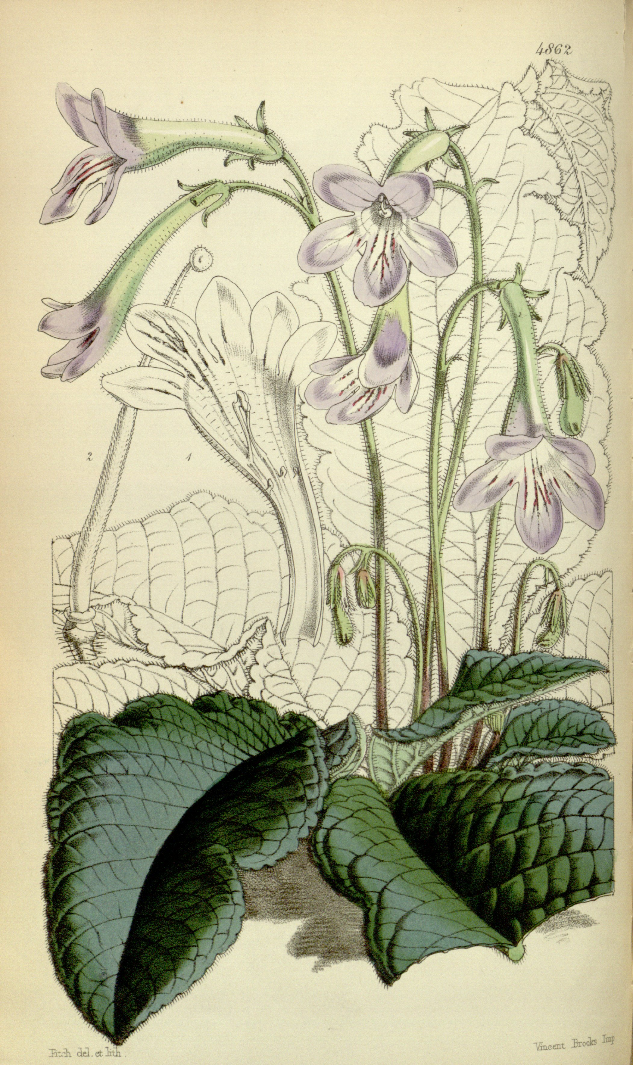 Streptocarpus gardenii, Bot. Mag. 81: t. 4862. 1855